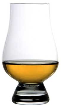 Photo of a Glencairn Whisky Glass, used by the Scotch Whisky Industry and other whiskey companies in the USA, Canada, Ireland and other nations. It is found at most major whisky festivals around the world and it's design is the property of Glencairn Crystal Ltd, East Kilbride, Scotland.